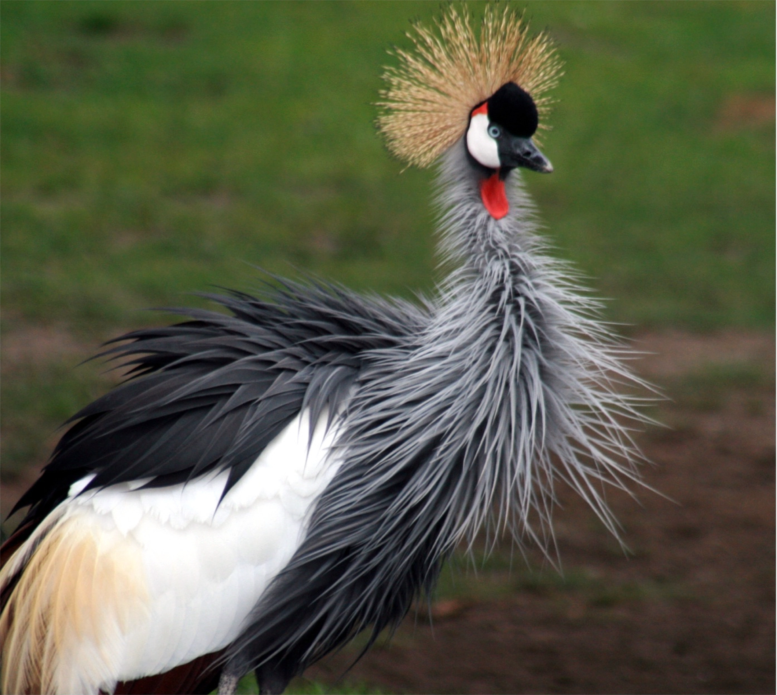 Grey Crowned Crane